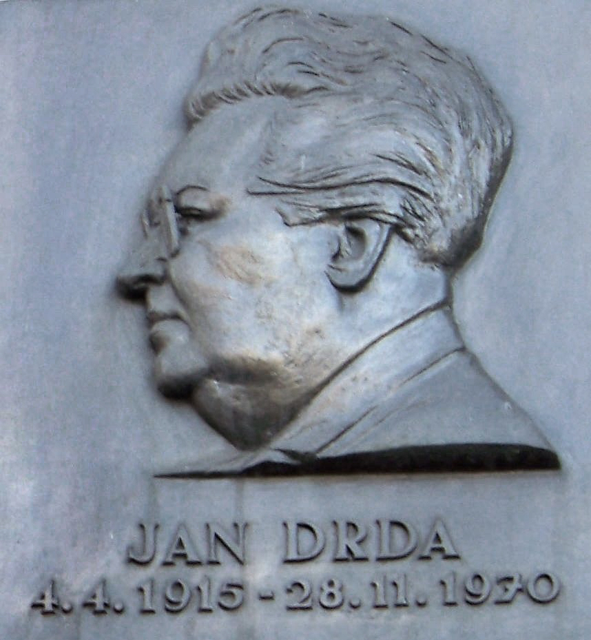 Prague-New Town. Jiráskovo náměstí 1982/5, a plaque to Eduard Bass and Jan Drda.